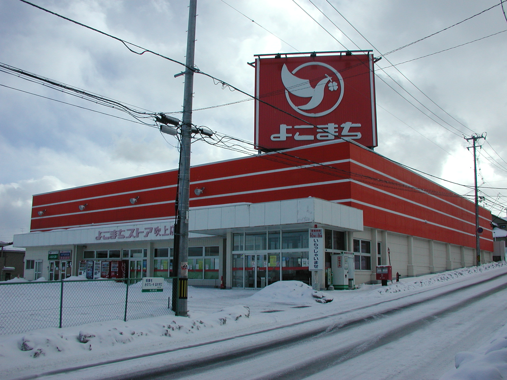 Yokomachi Store Fukiage Shops